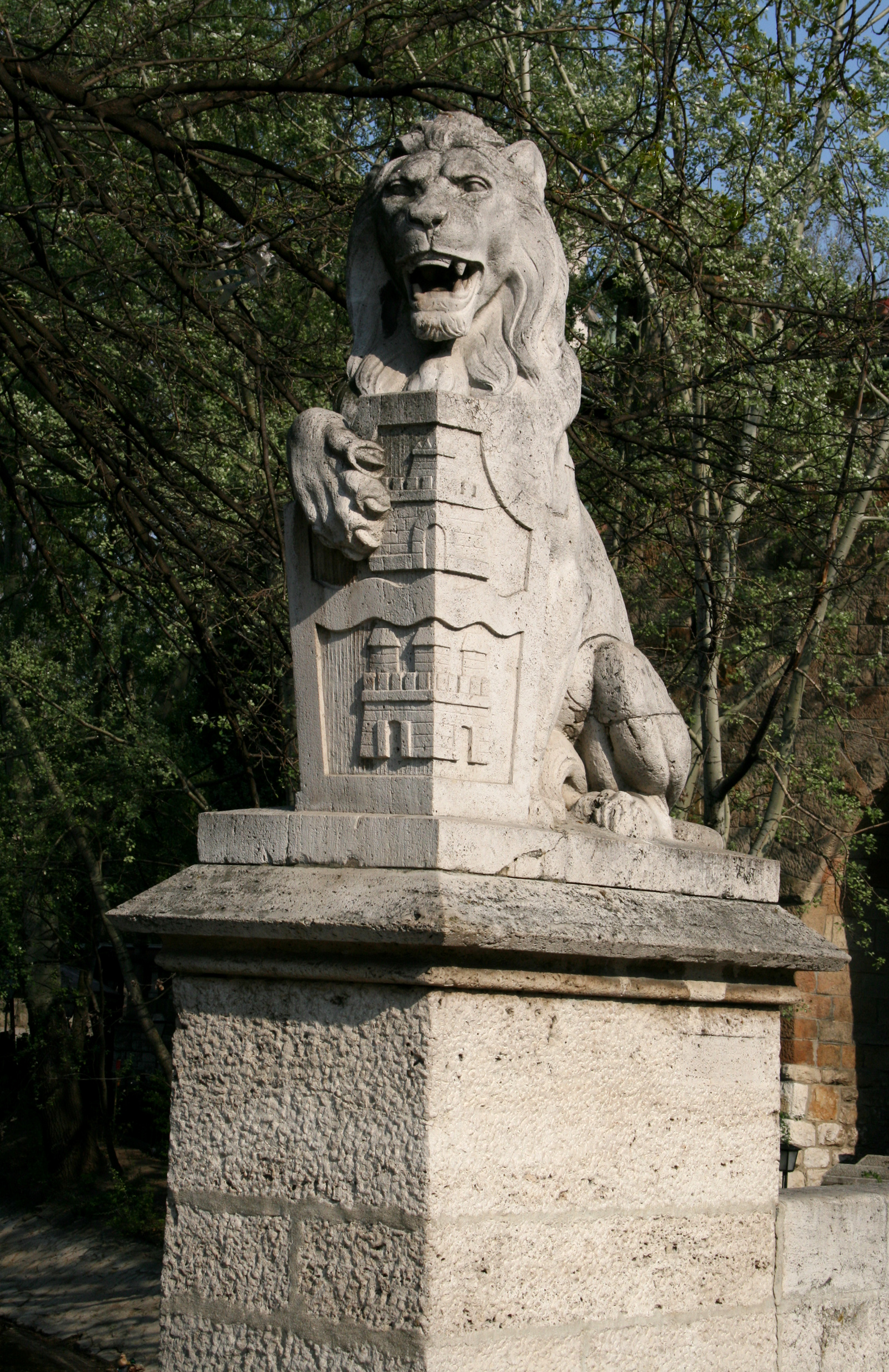 Stone lion in the entrance into Vajdahunyad castle in centre of Budapest, Hungary